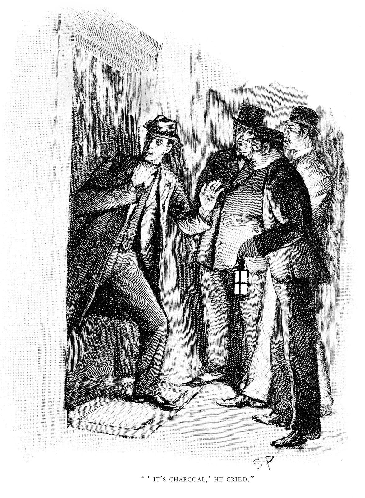 Illustration of the Sherlock Holmes adventure The Greek Interpreter, which appeared in The Strand Magazine in September, 1893. Original caption was "'IT'S CHARCOAL,' HE CRIED."